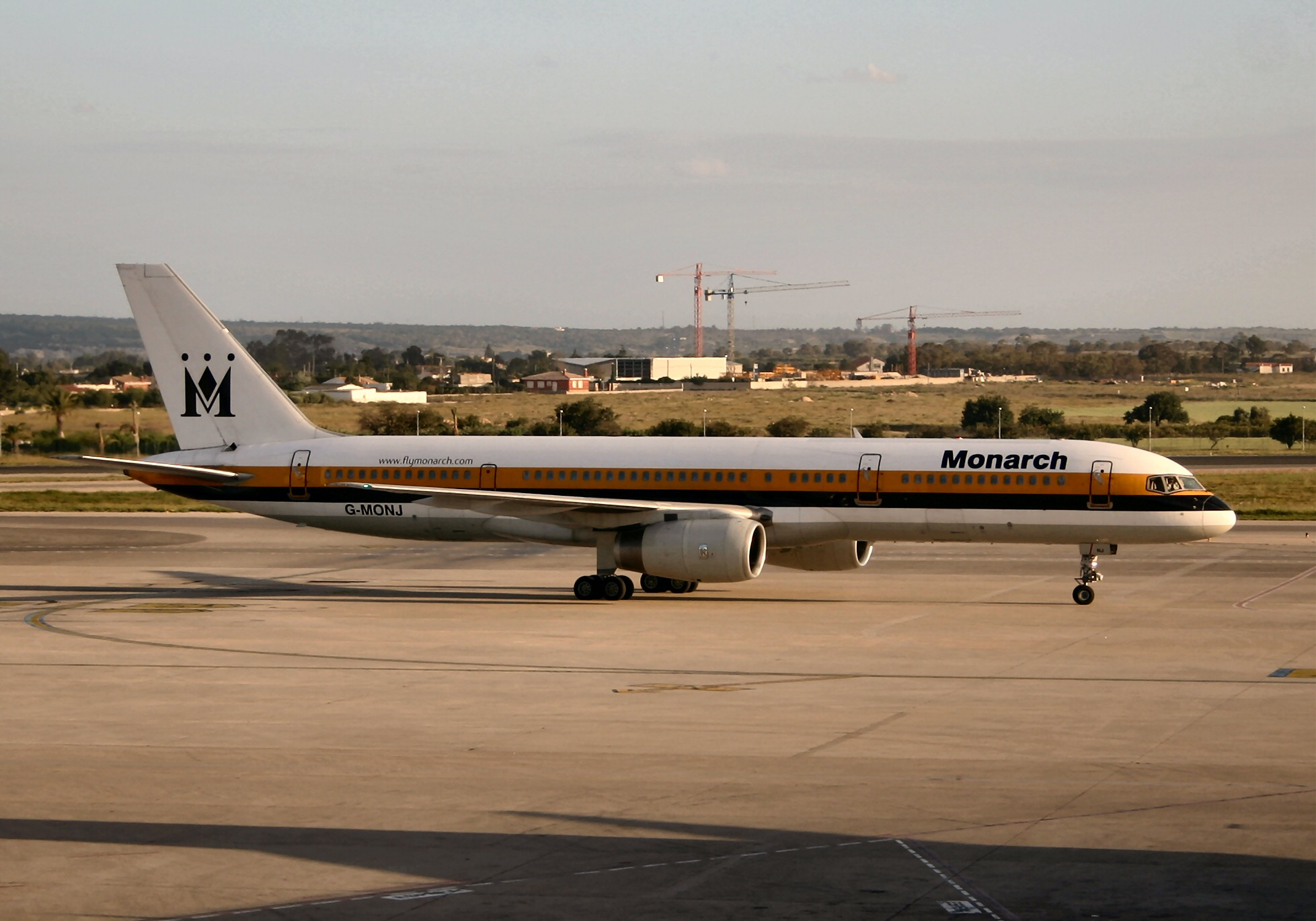 Monarch Airlines Boeing 757-2T7 G-MONJ Alicante El Altet airport May 2004